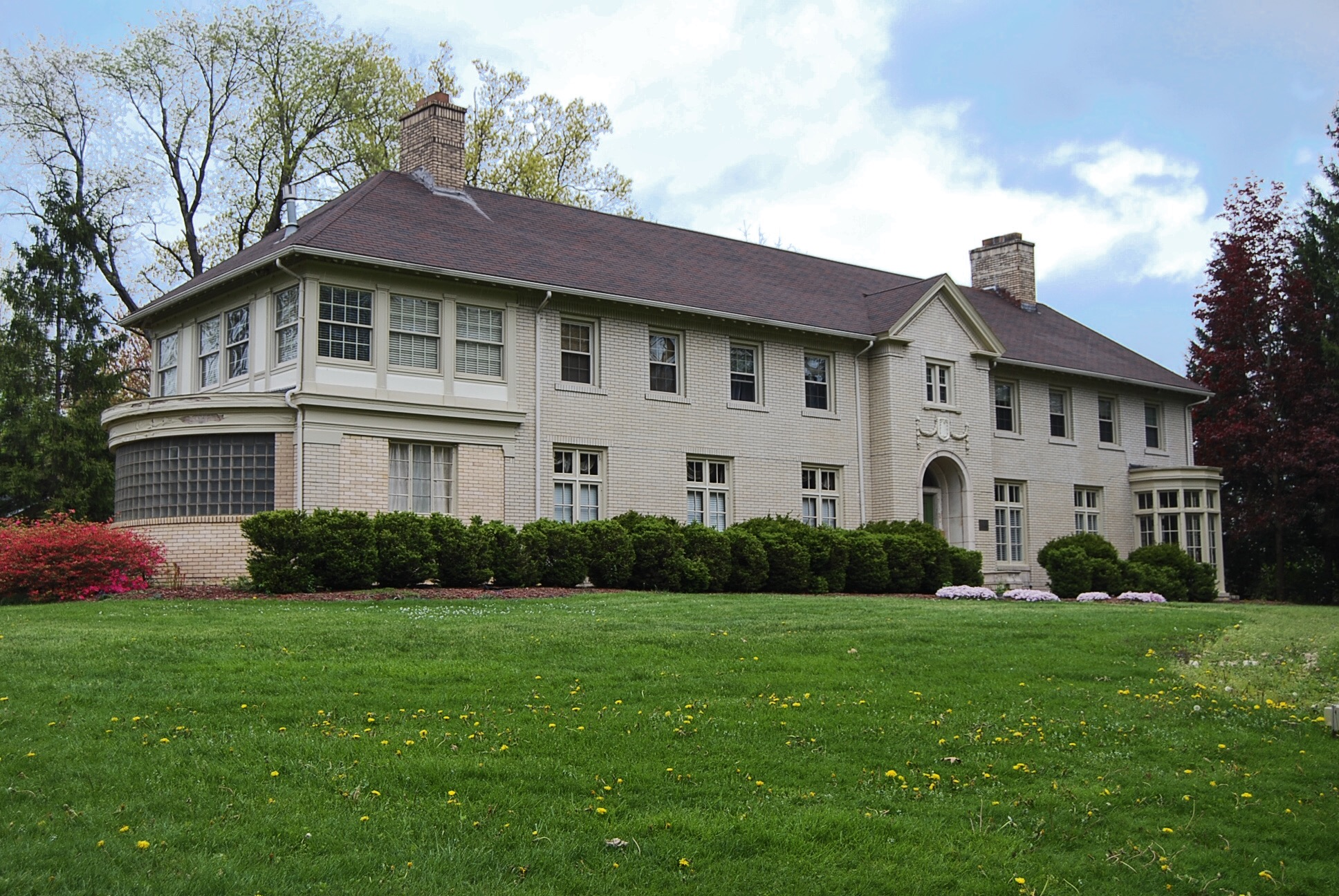 A house in the Crandall Park North Historic District